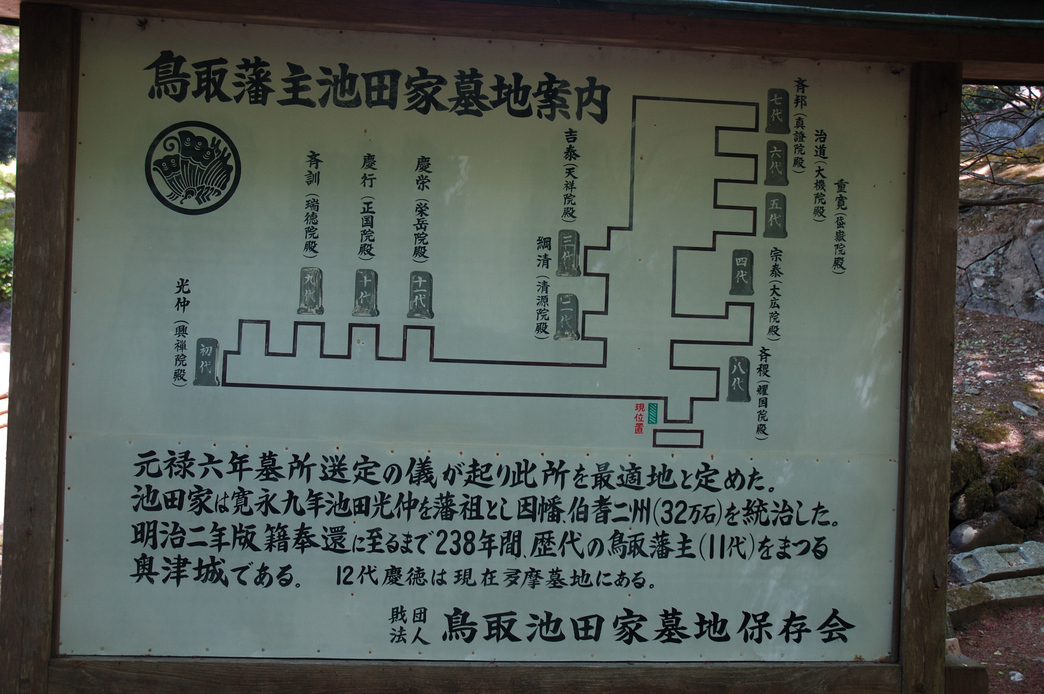 information boad of cemetery of Tottori Ikeda famiry